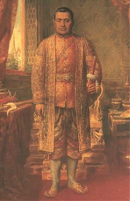 Crop of portrait of King Nangklao which is displayed in the Chakri Mahaprasad Hall at the Grand Palace, Bangkok. Portrait created during the reign of King Chulalongkorn, meaning it was created no later than 1910 (identity of the creator is unknown to the uploader).